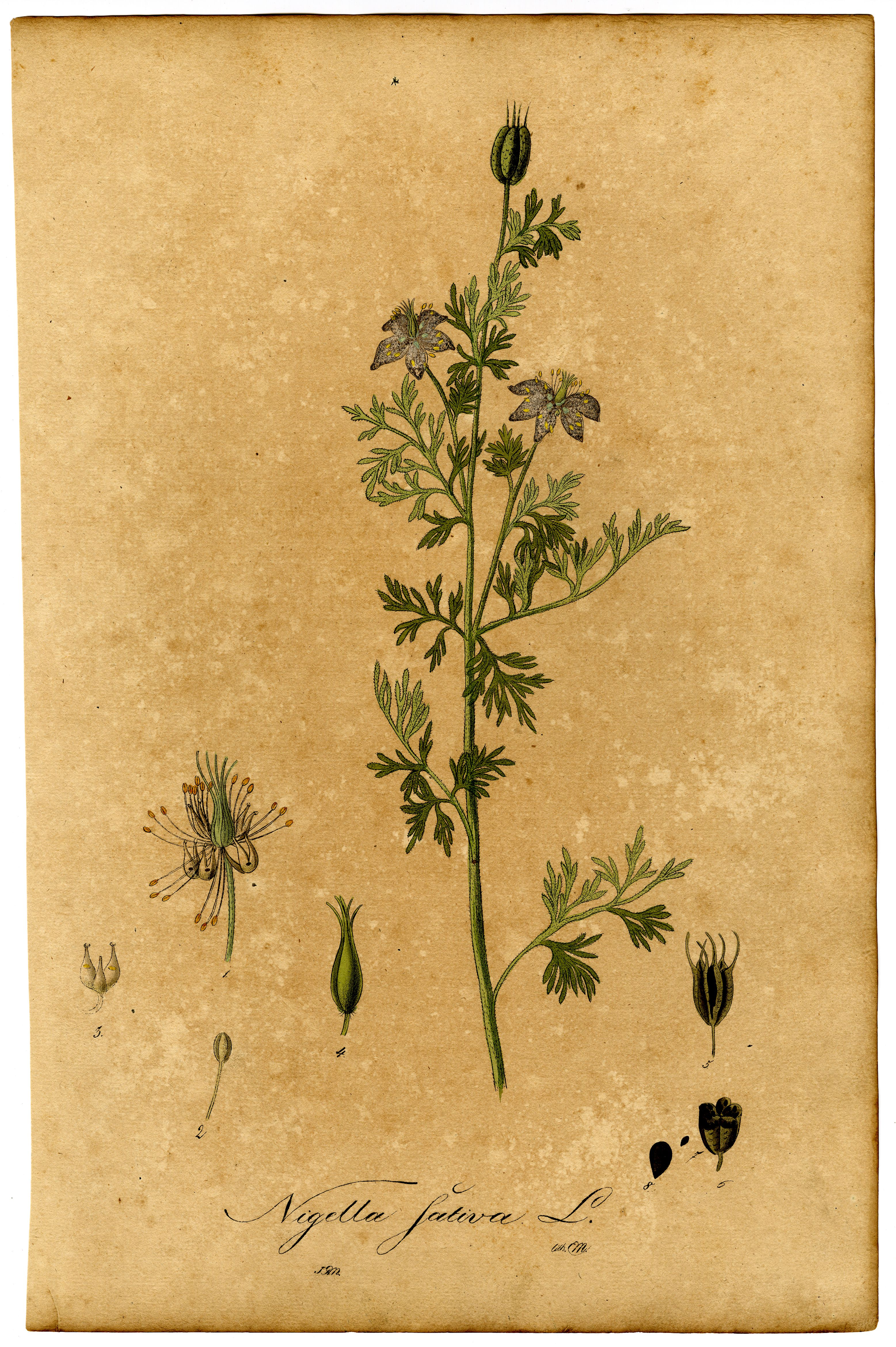 Nigella sativa